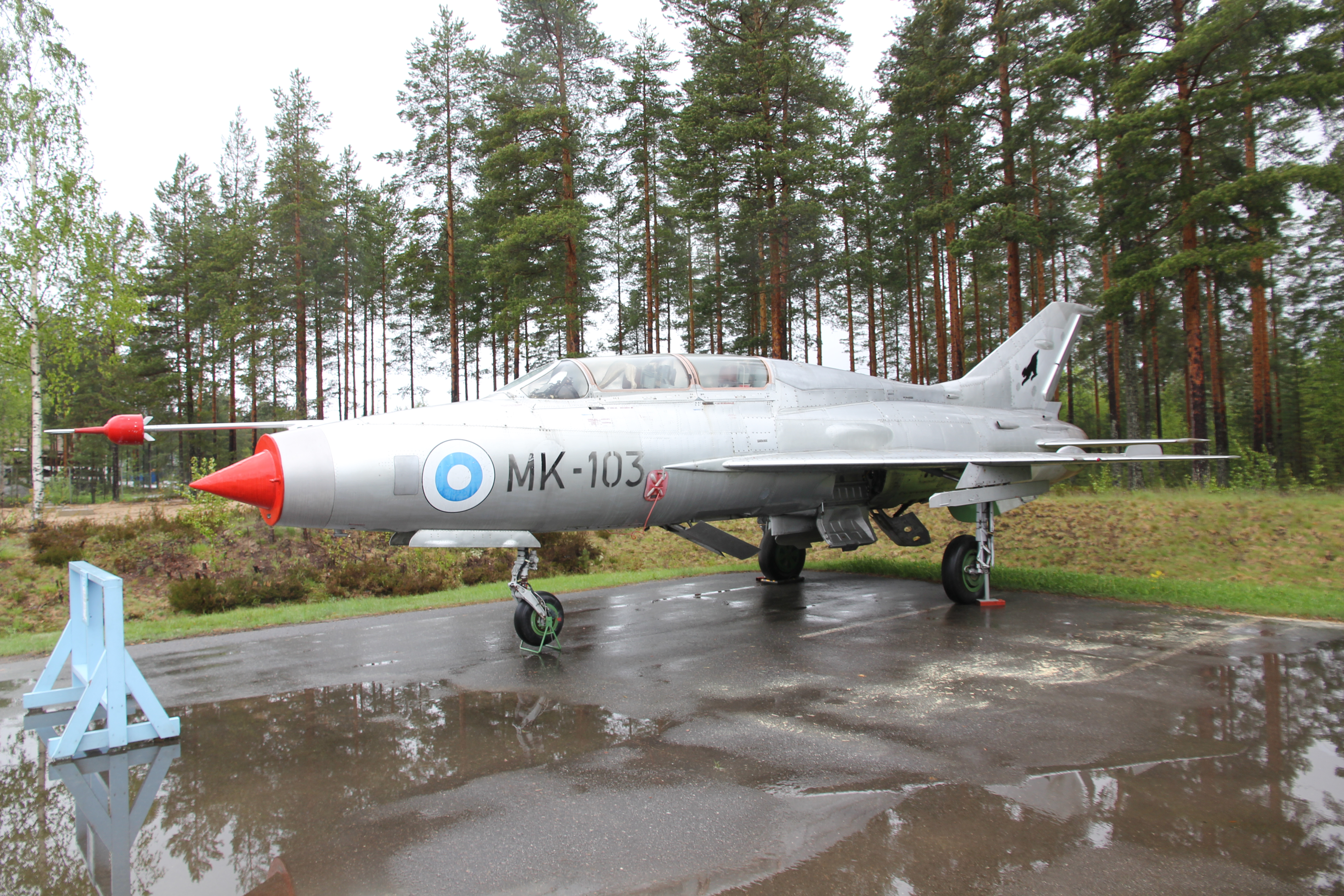 MiG-21U (MK-103) two-seat trainer in the Aviation Museum of Central Finland.